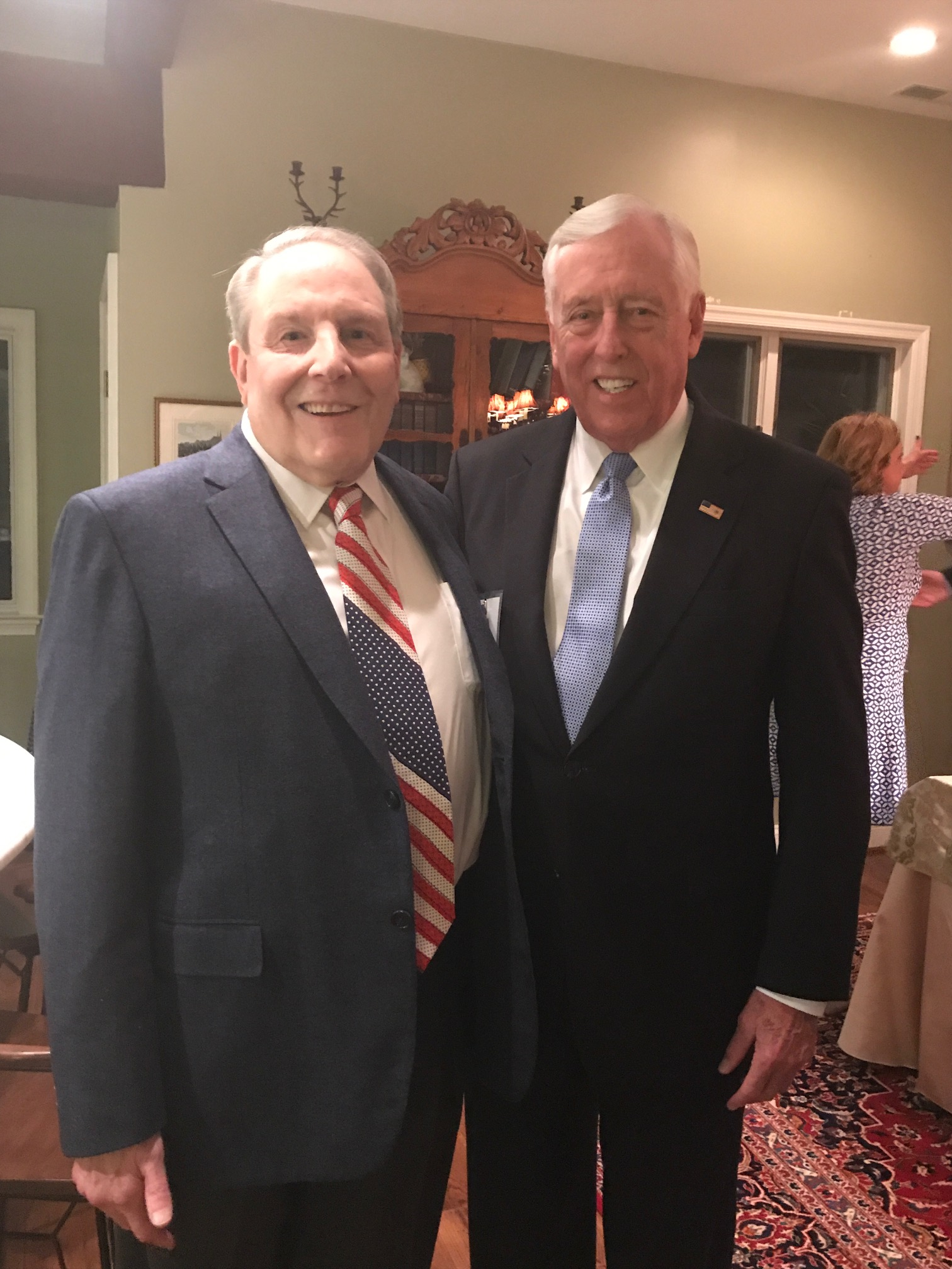 Congressman Steny Hoyer and Jeffrey A. Legum